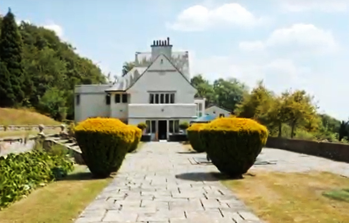 Greyfriars House, Guildford